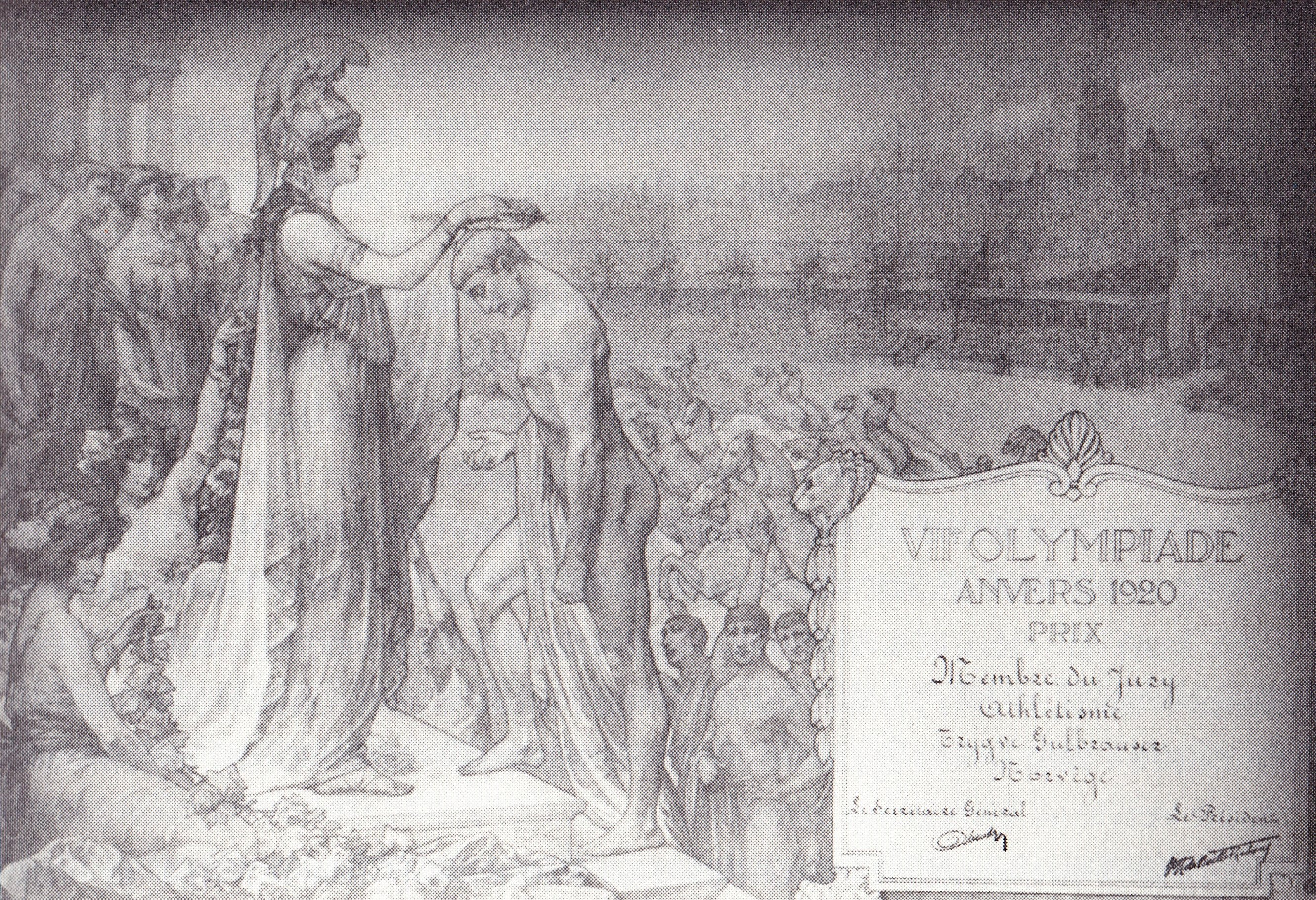 Diploma for jury member Trygve Gulbranssen from the Olympic Games in Antwerpen.